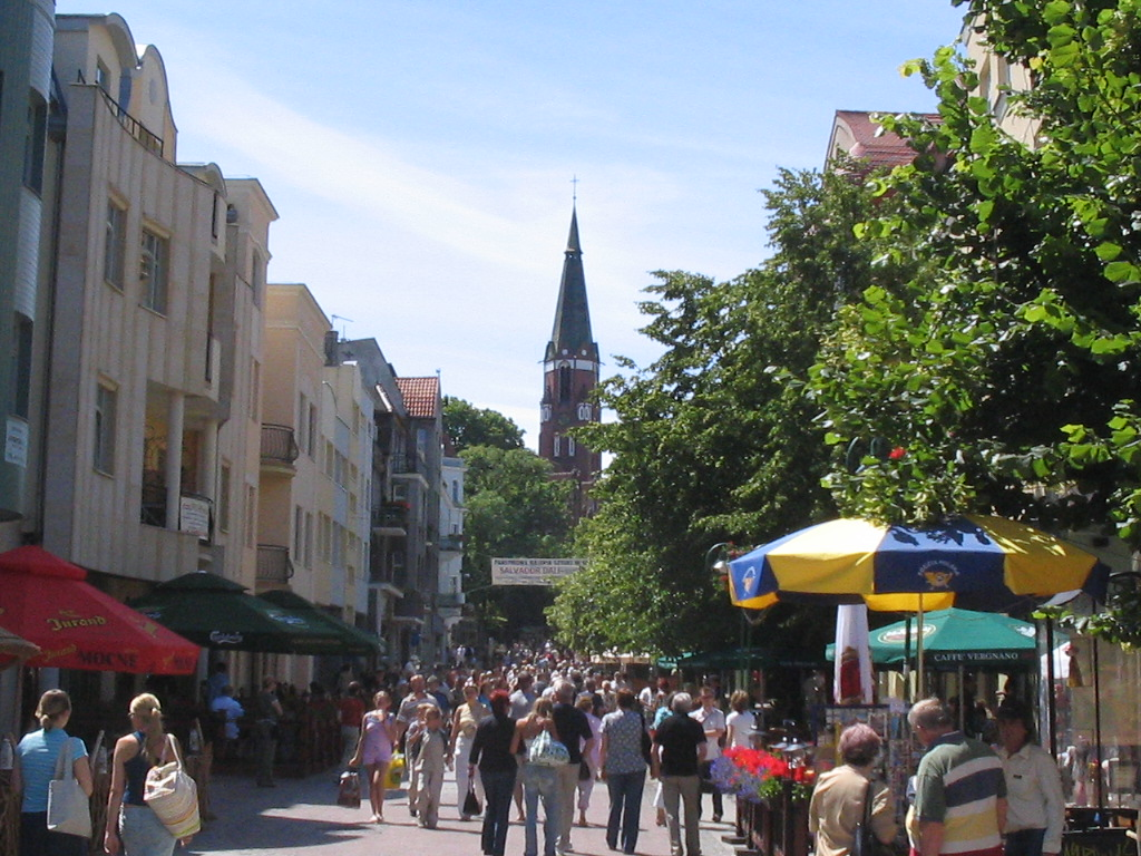 mainstreet Sopot, Poland